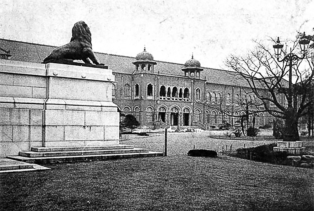 Tokyo Imperial Household Museum(present-day "Tokyo National Museum")